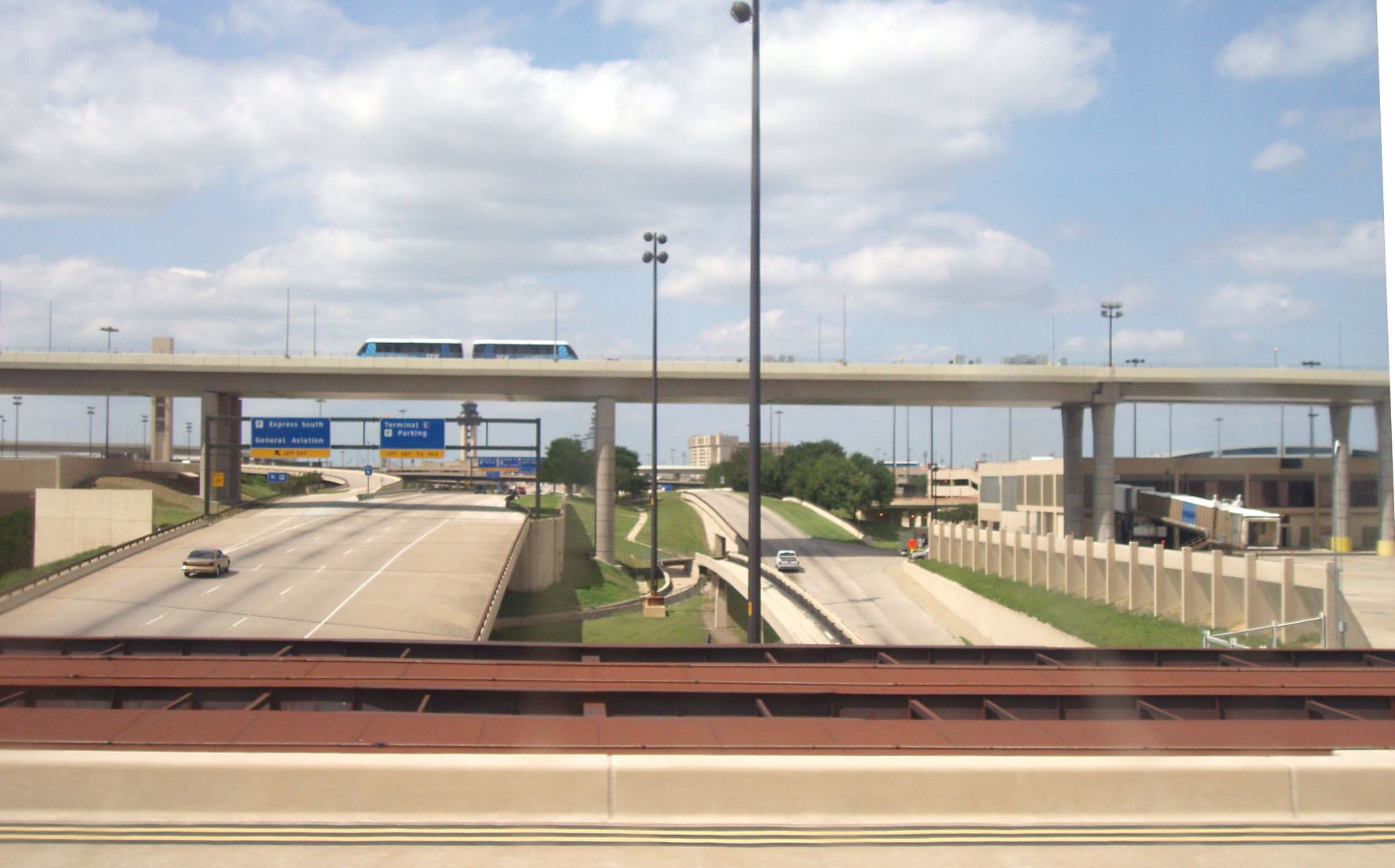 From AA DC-9 taxiing on elevated taxiway above the airport streets.